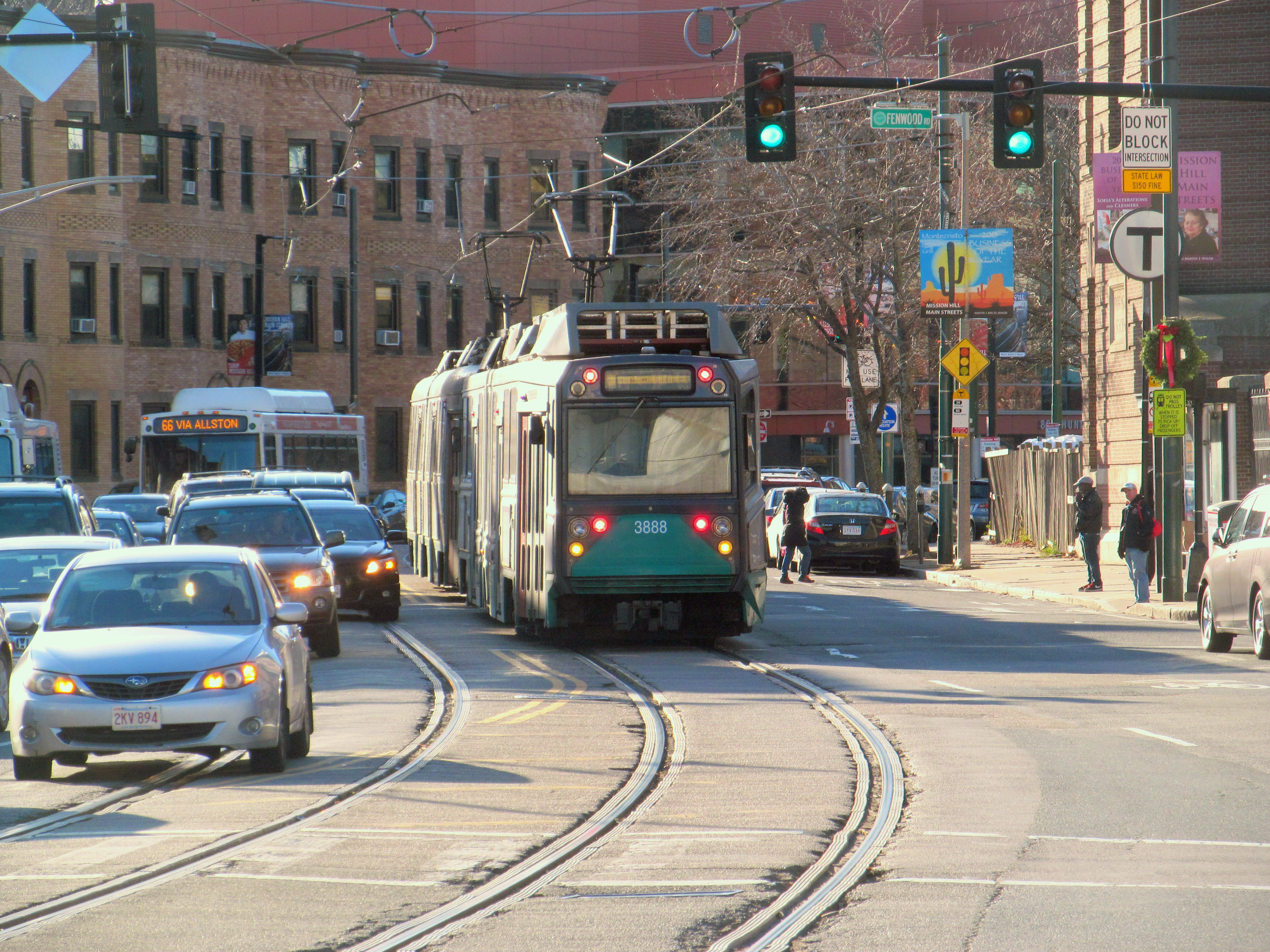 An outbound train at Fenwood Road stop in December 2016